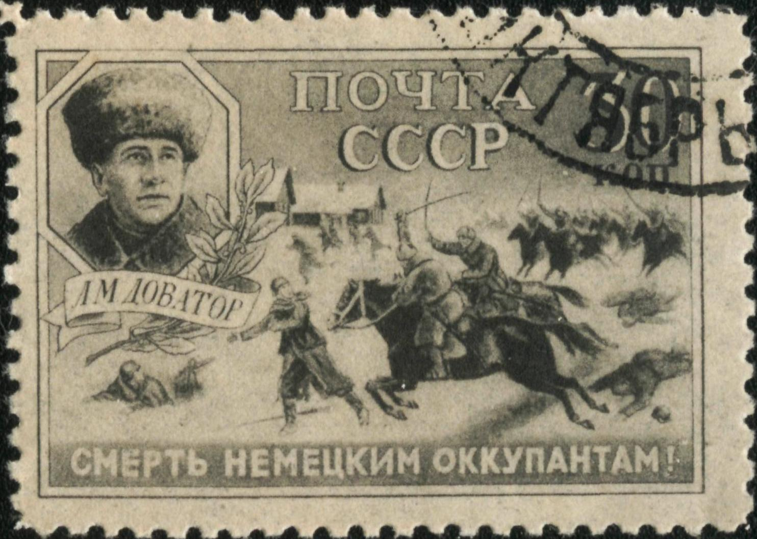 USSR stamp of 1942: Major General L. M. Dovator (1903-1941); Death to the German invaders, 30 kopek; cancel of "... Oktyabr" town (probably, Krasny Oktyabr (Red October)). The stamp shows a combat of Dovator's cavalry division in the winter of 1941/1942 against German infantry. CPA No. 825.